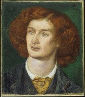 Dante Gabriel Rossetti (1828-1882). Algernon Charles Swinburne, 1862